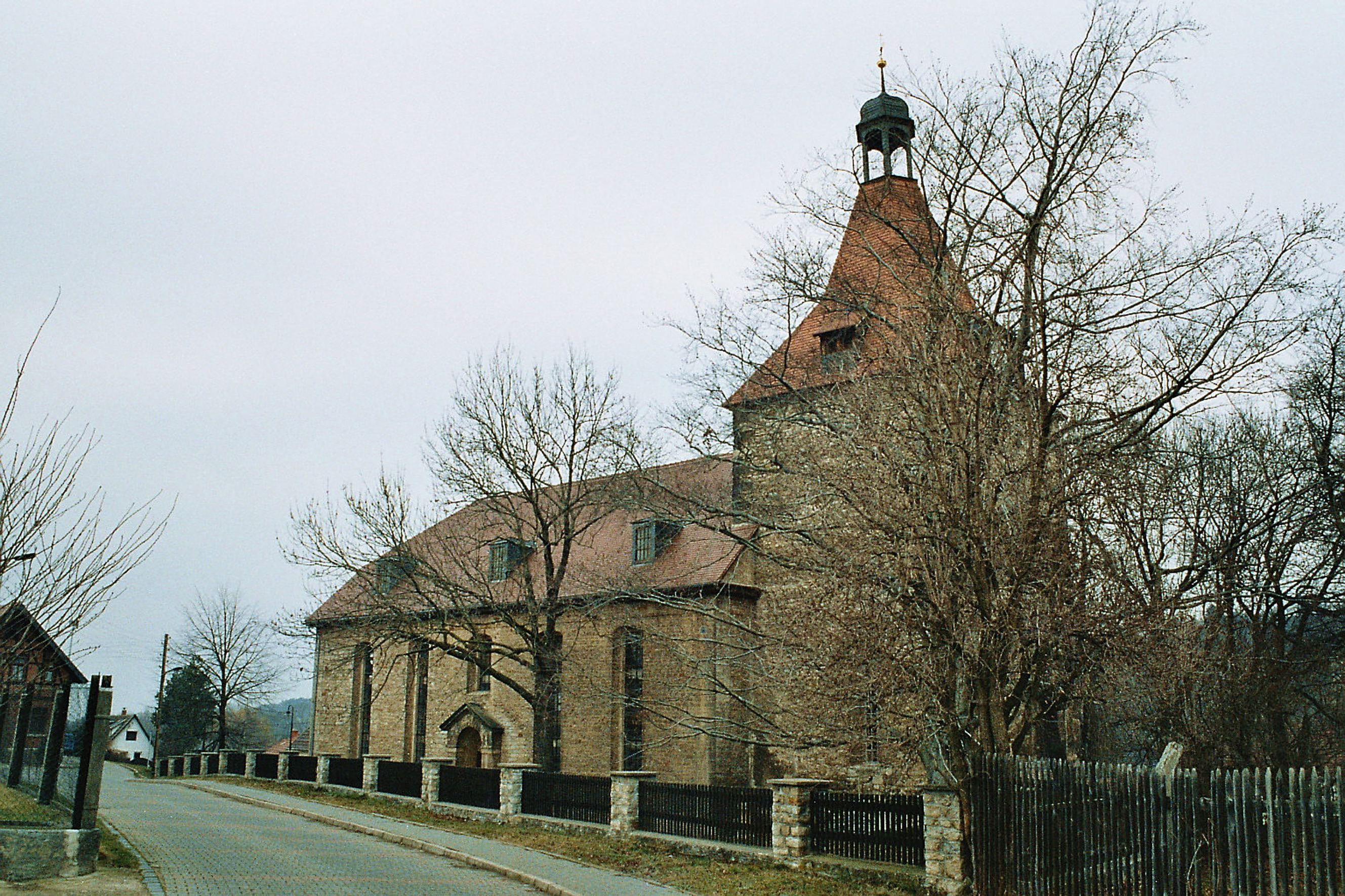 The village church St.Vitus